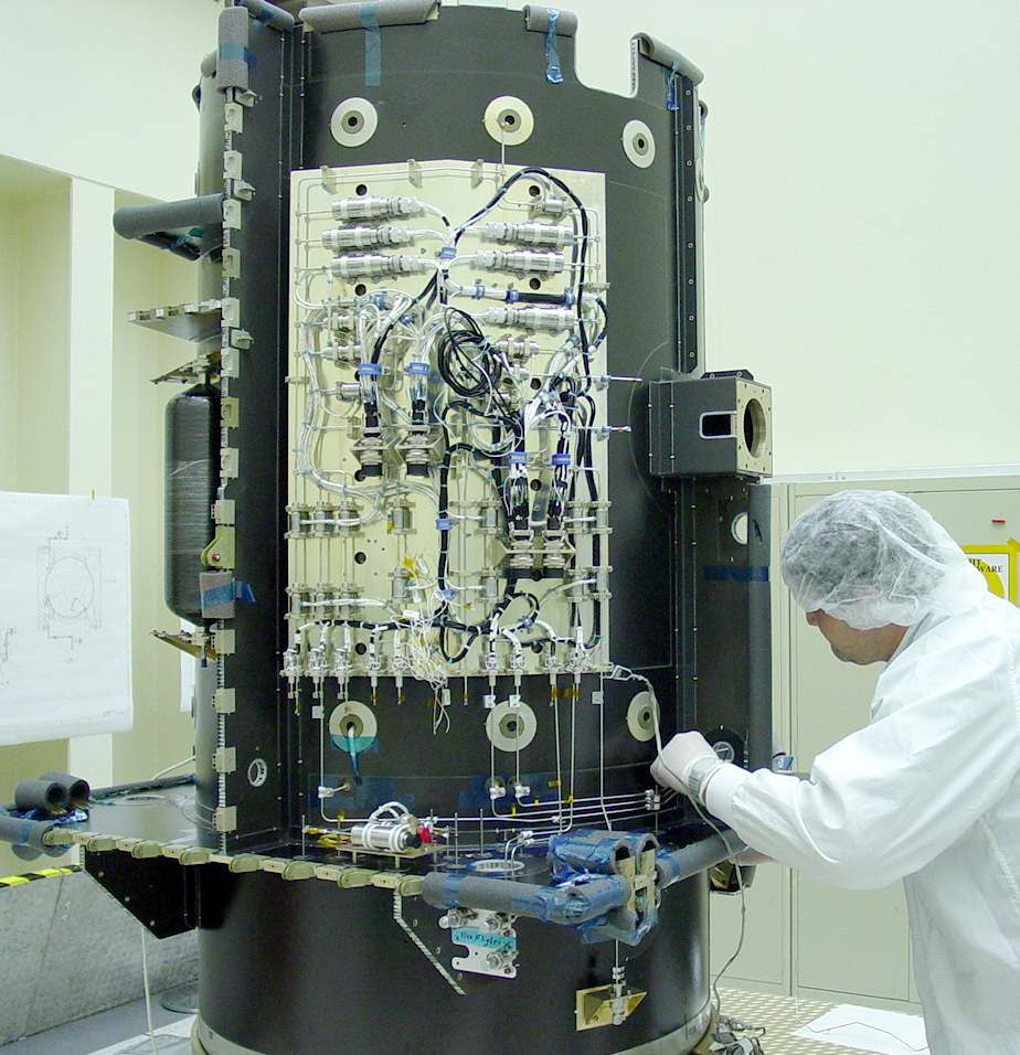 Xenon Feed System on the Dawn Spacecraft Core Structure